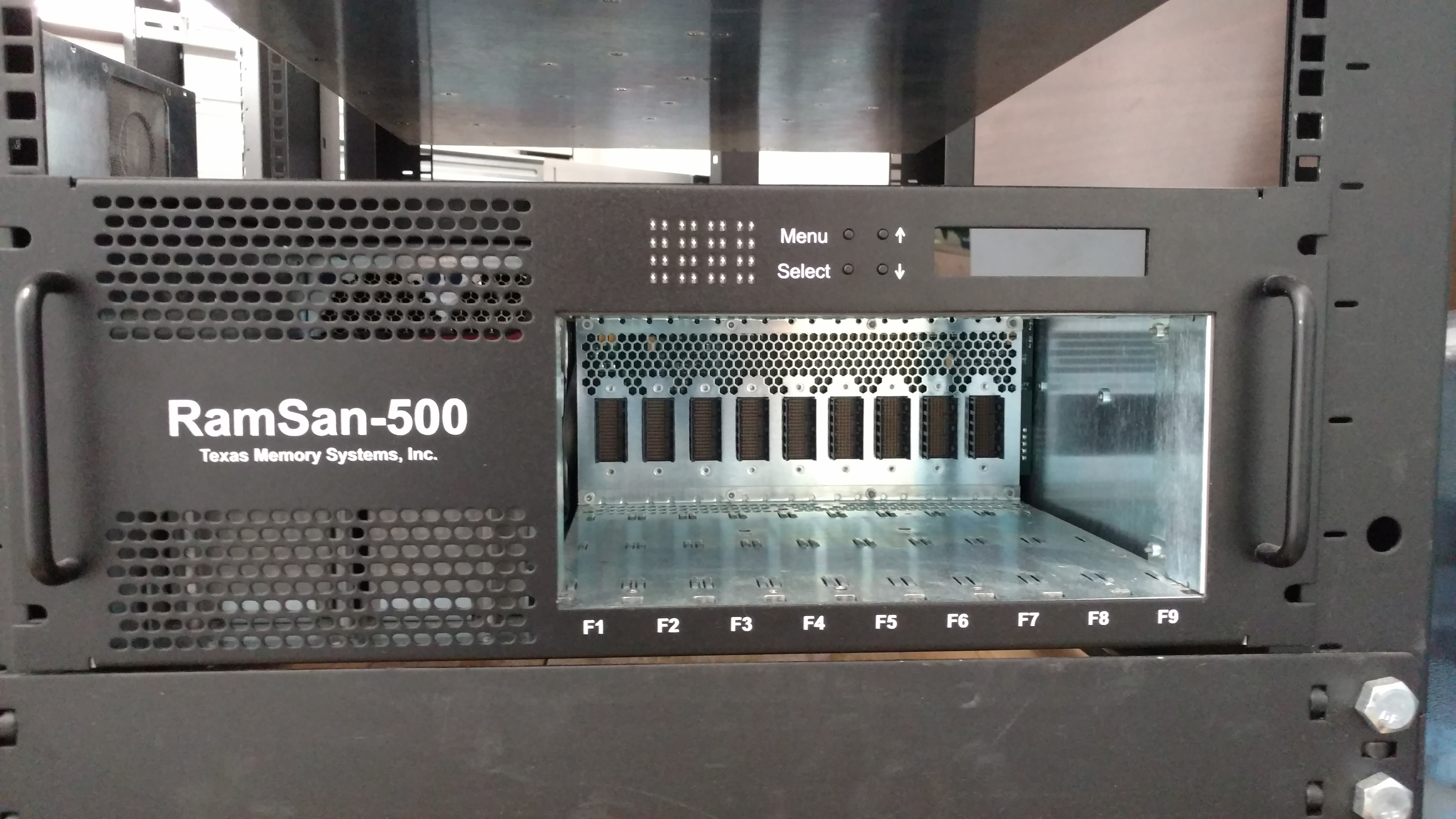 RamSan-500 enterprise solid state disk from Texas Memory Systems